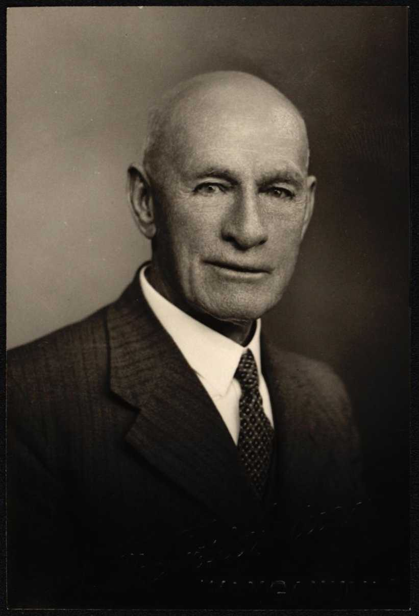 Archives New Zealand Reference: ACGO 8333 IA1 1350 / 15/11/22022